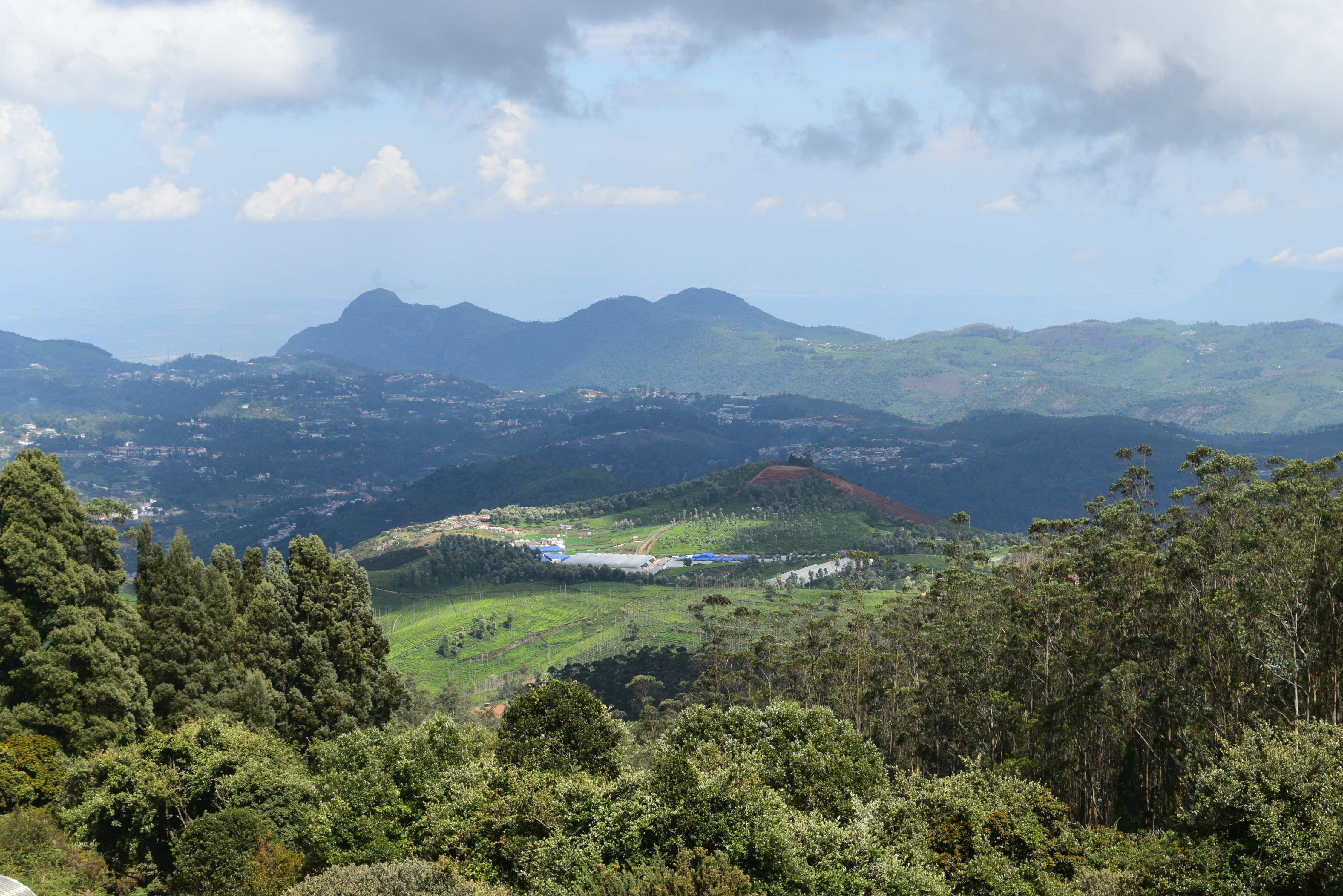 The Nilgiri (blue mountains), are a range of mountains forming part of the Western Ghats which is located in the western part of Tamil Nadu, at the junction of Karnataka and Kerala states in Southern India. At least 24 of the Nilgiri mountains' peaks are above 2,000 metres (6,600 ft), the highest peak being Doddabetta, at 2,637 metres (8,652 ft).